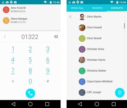 Android lollipop phone app